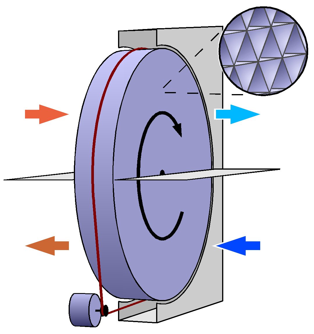 Schematic drawing of a rotary heat exchanger (aka. heat recovery wheel)